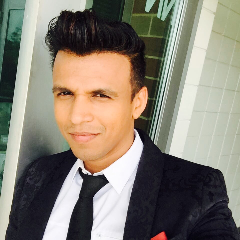 First Indian Idol Abhijeet Sawant Picture clicked in 2015.